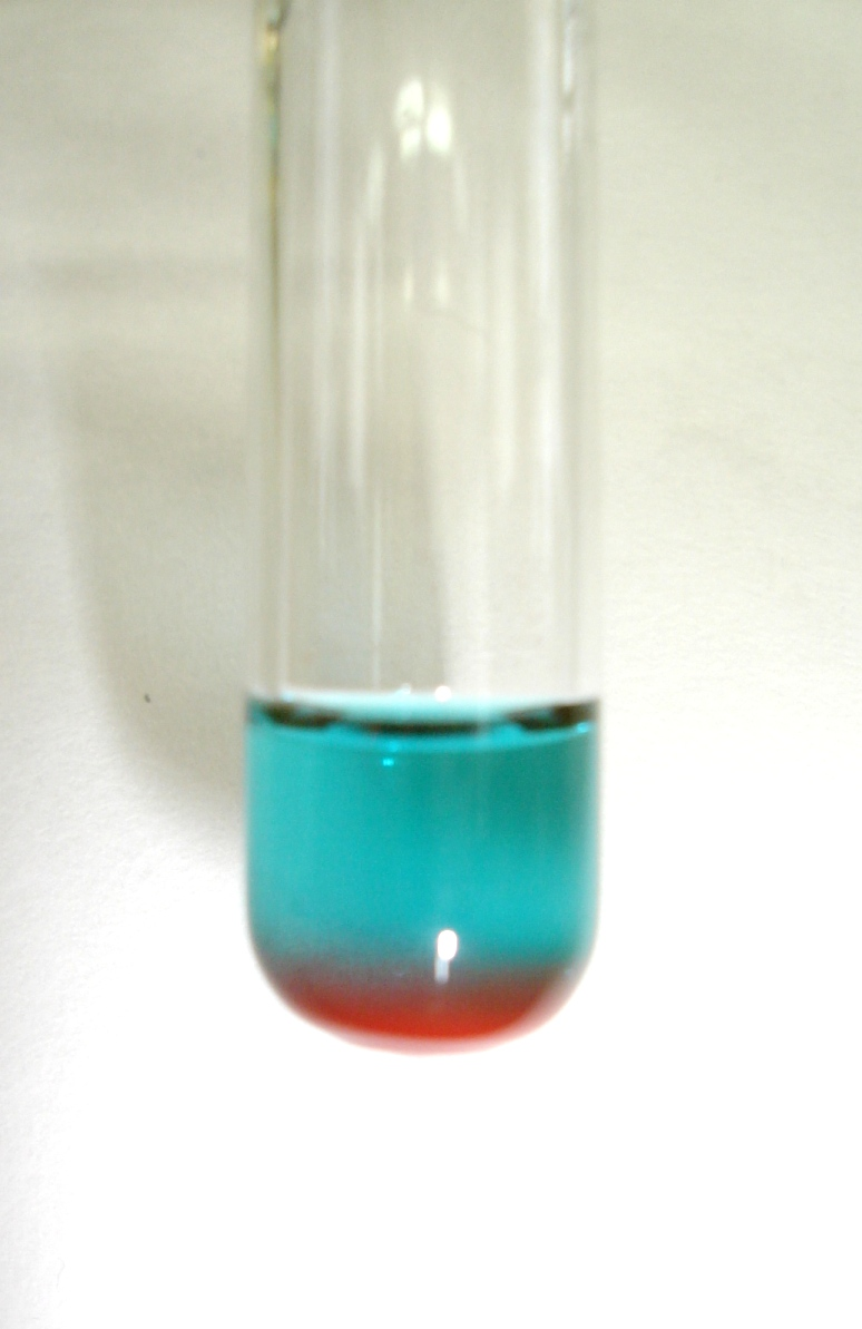 Benedict's test - positive.